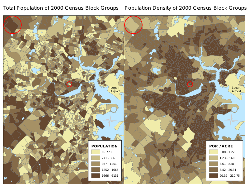 Two choropleths demonstrating the graphics perils of mapping unnormalized data. Rasterized from File:Choropleth-density.svg because mediawiki seems to be unable to render it properly? Source data provided by the Office of Geographic Information (MassGIS), Commonwealth of Massachusetts Information Technology Division.